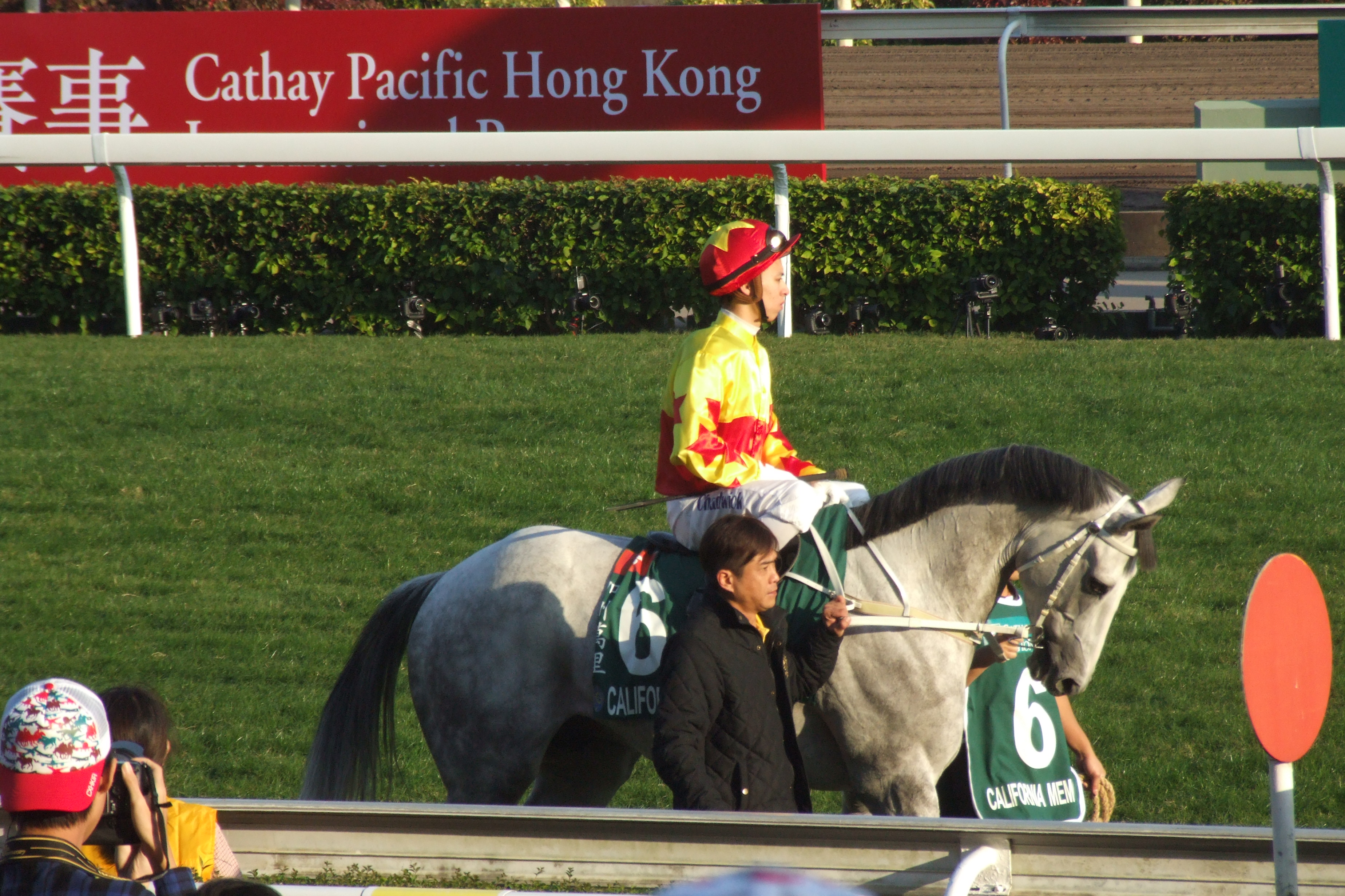 California Memory